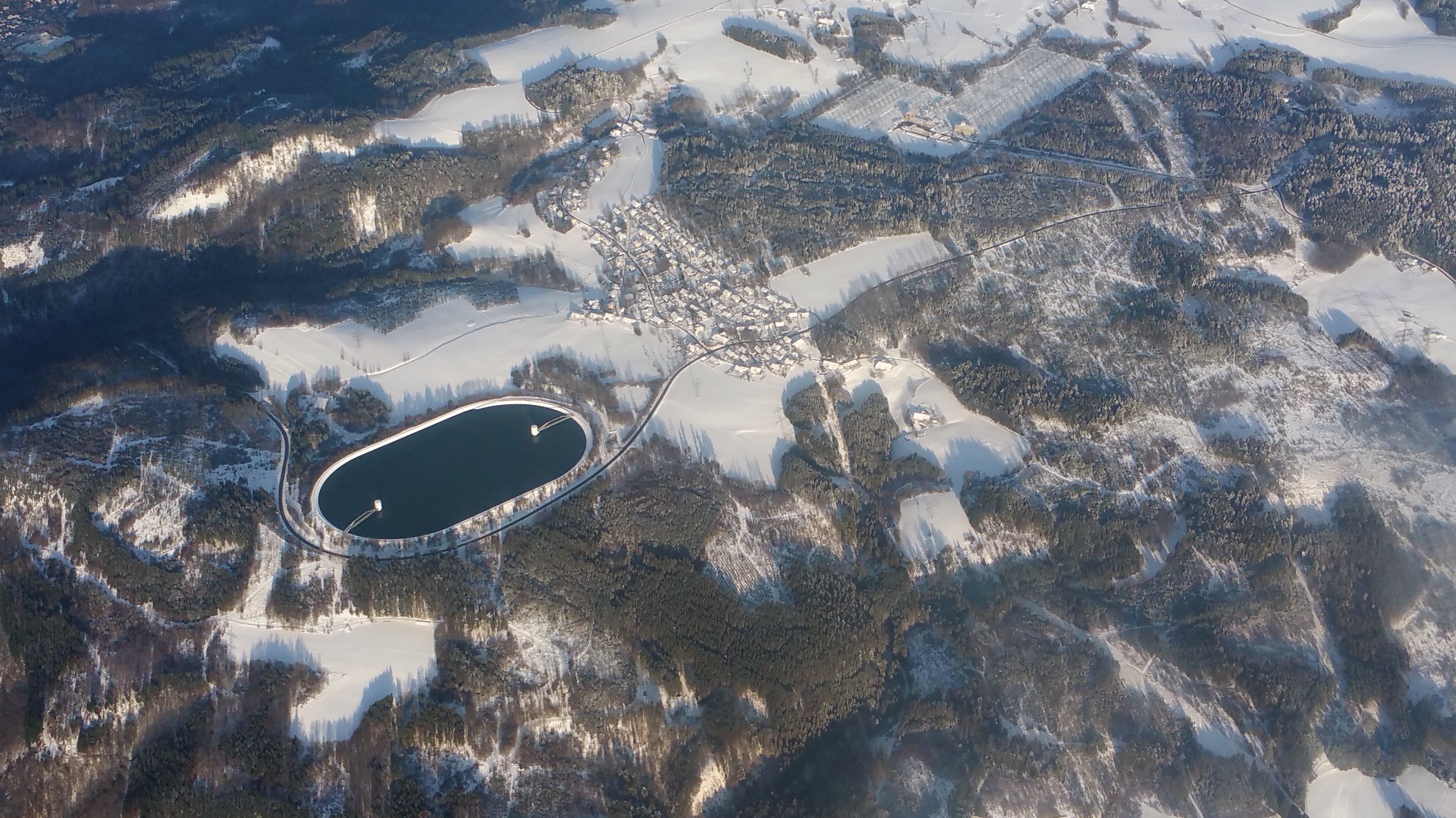 Germany, approach into ZRH across the Black Forest, Eggbergbecken (left) and Kühmoos substation (top)